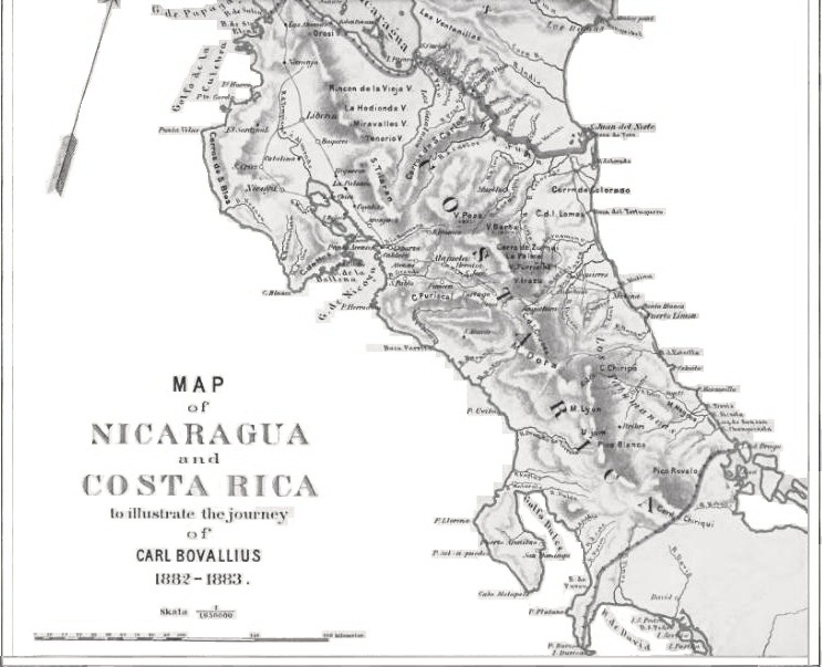 CA Map (bottom)